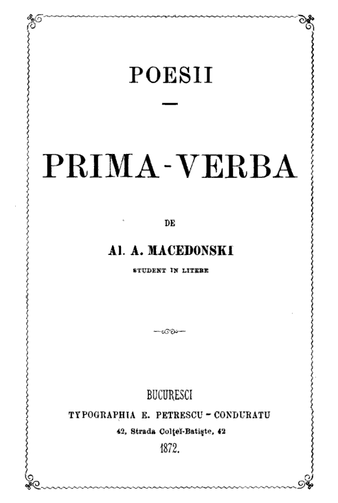 Alexandru Macedonski - First page of Prima verba, published by Tipografia E. Petrescu-Conduratu in 1872.